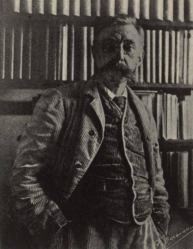 Picture of Émile Verhaeren